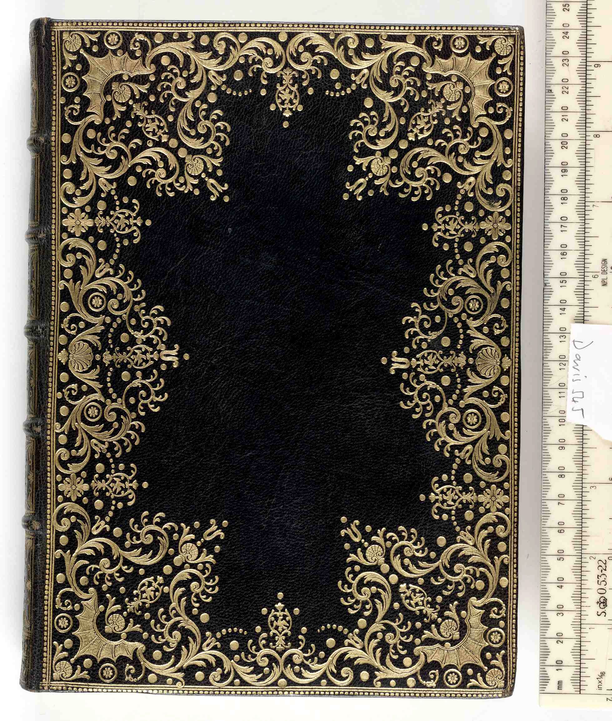 Style: Dentelle|Bat wing motif|Bird motif; Caption: Upper cover; Colour: Black; Edge: Marbled under gilt